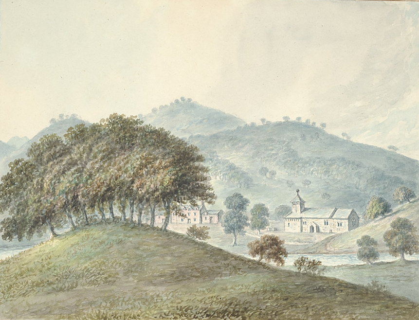 Llanllwchuarn, 1796